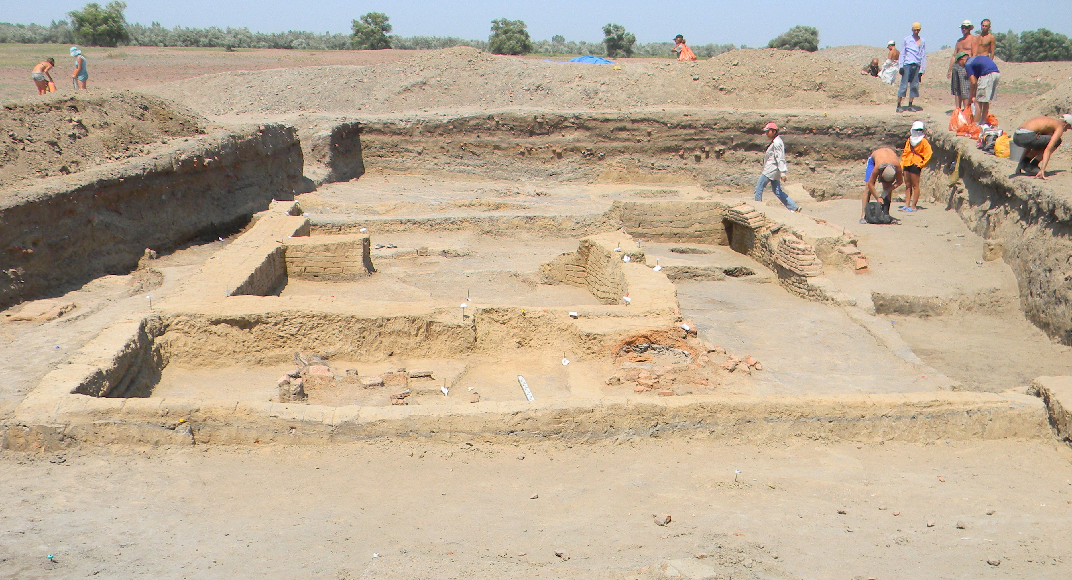 Samosdelskoye site raskop 2 from the south